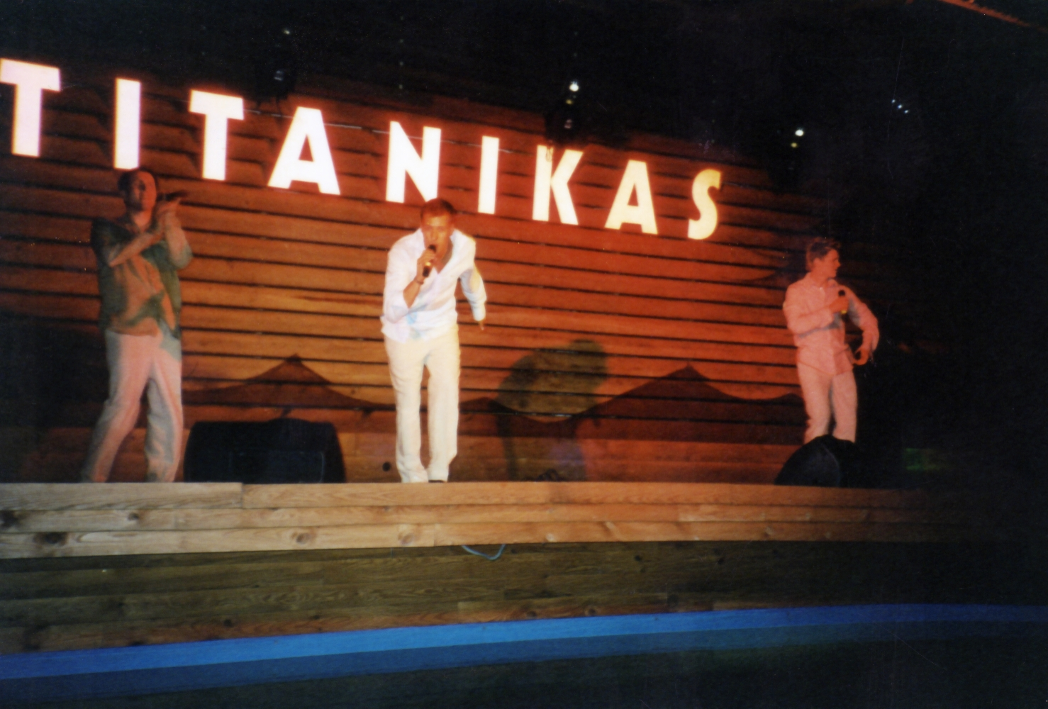 the lithuanian pop group B'Avarija in 2003 (Šventoji)